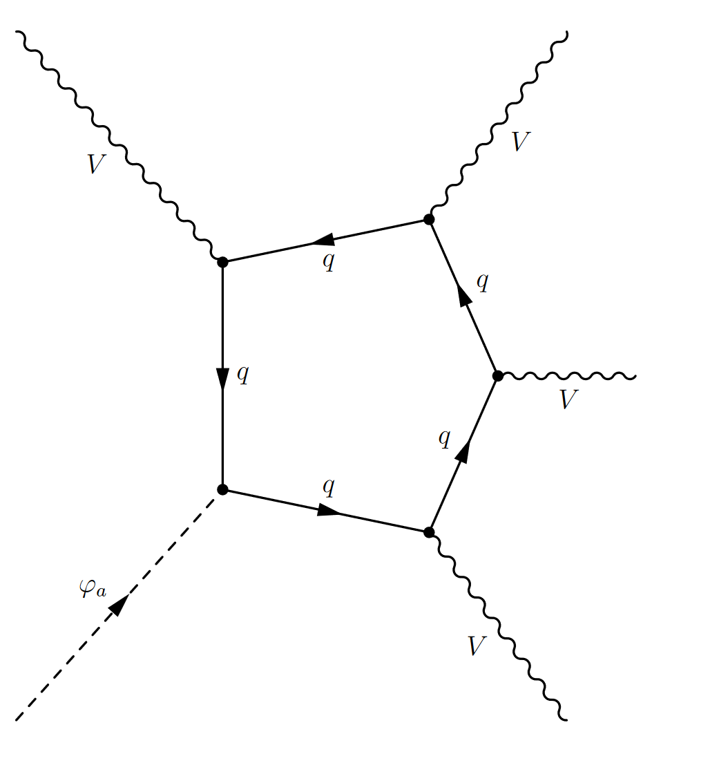 Pentagonal Feynman diagram in fermion vacuum of quantum chromodynamics, which generates Wess-Zumino-Witten term of QCD SSB goldstone bosons, which are pseudoscalar mesons. Dashed line corresponds to meson, curly line defines fictious vector fields, while straight line defines quarks running in the loop